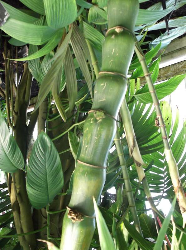 Bambusa tuldoides = Bambusa ventricosa in Kew Gardens, England.